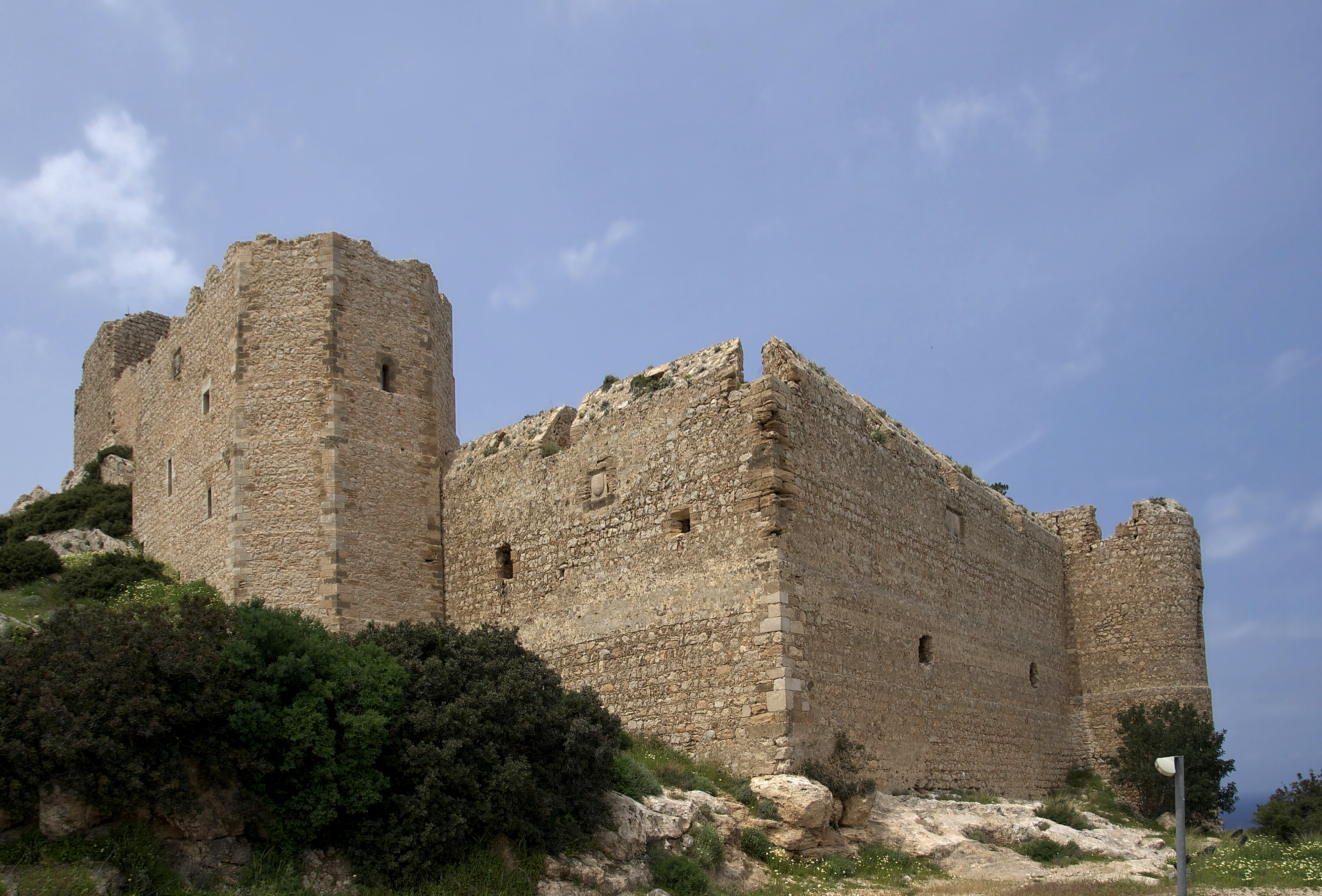 The ruins of the castle of Kastelos, 14th century, island of Rhodes, Greece.